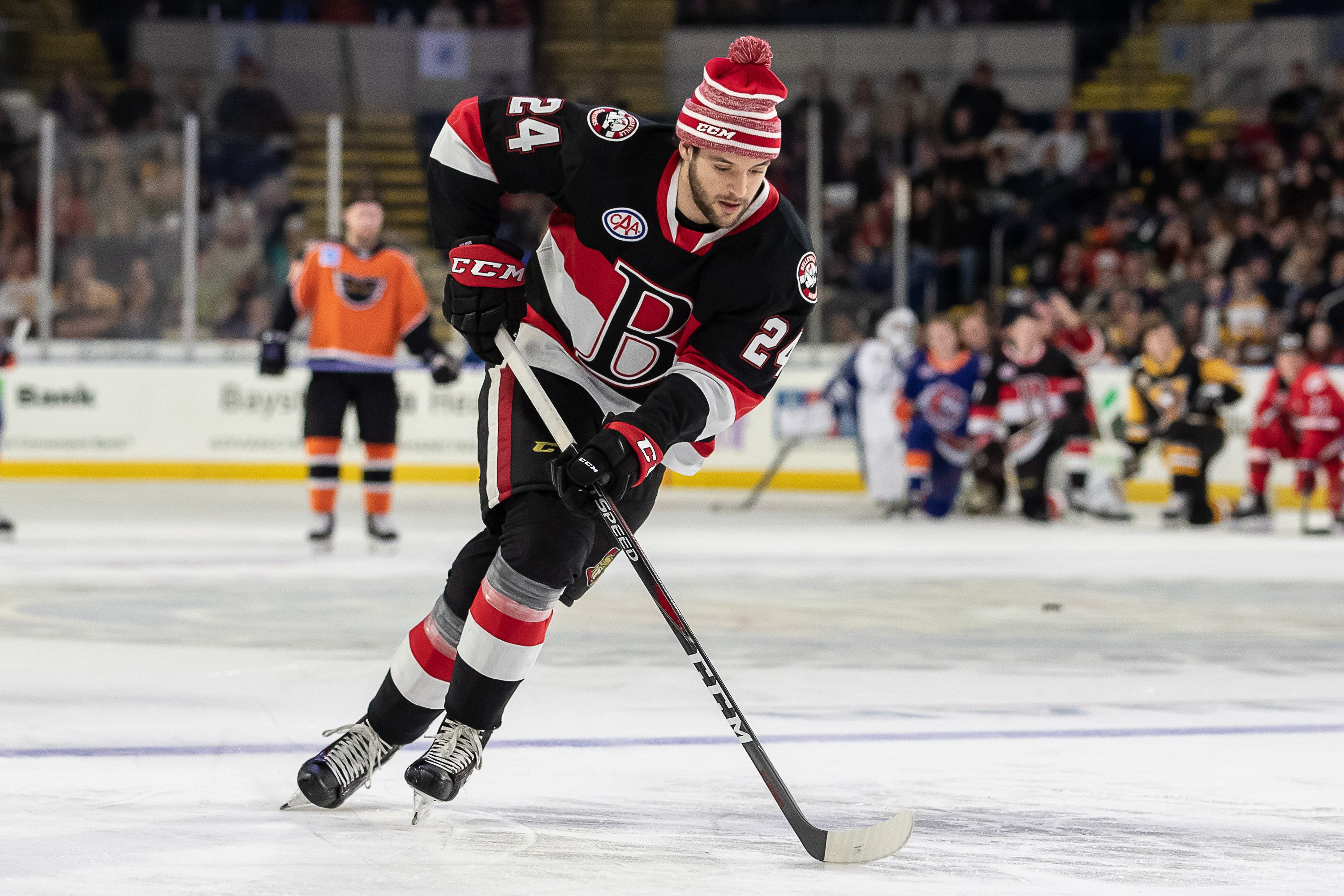 Photo BY: John McCreary / Champion City Sports